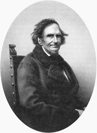 Georg Jan (born 21 December 1791 in Vienna, died 8 May 1866 in Milan) was an Austrian taxonomist, zoologist, botanist and writer of Hungarian origin. He is also known with the French and Italian form of his first name: Georges and Giorgio.